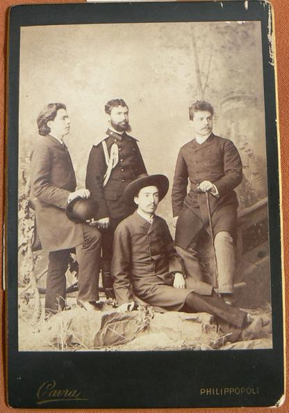 Ivan_Stoyanovich_(sitting)_Anton_Mitov,_Valyo_Stefov,_unknown